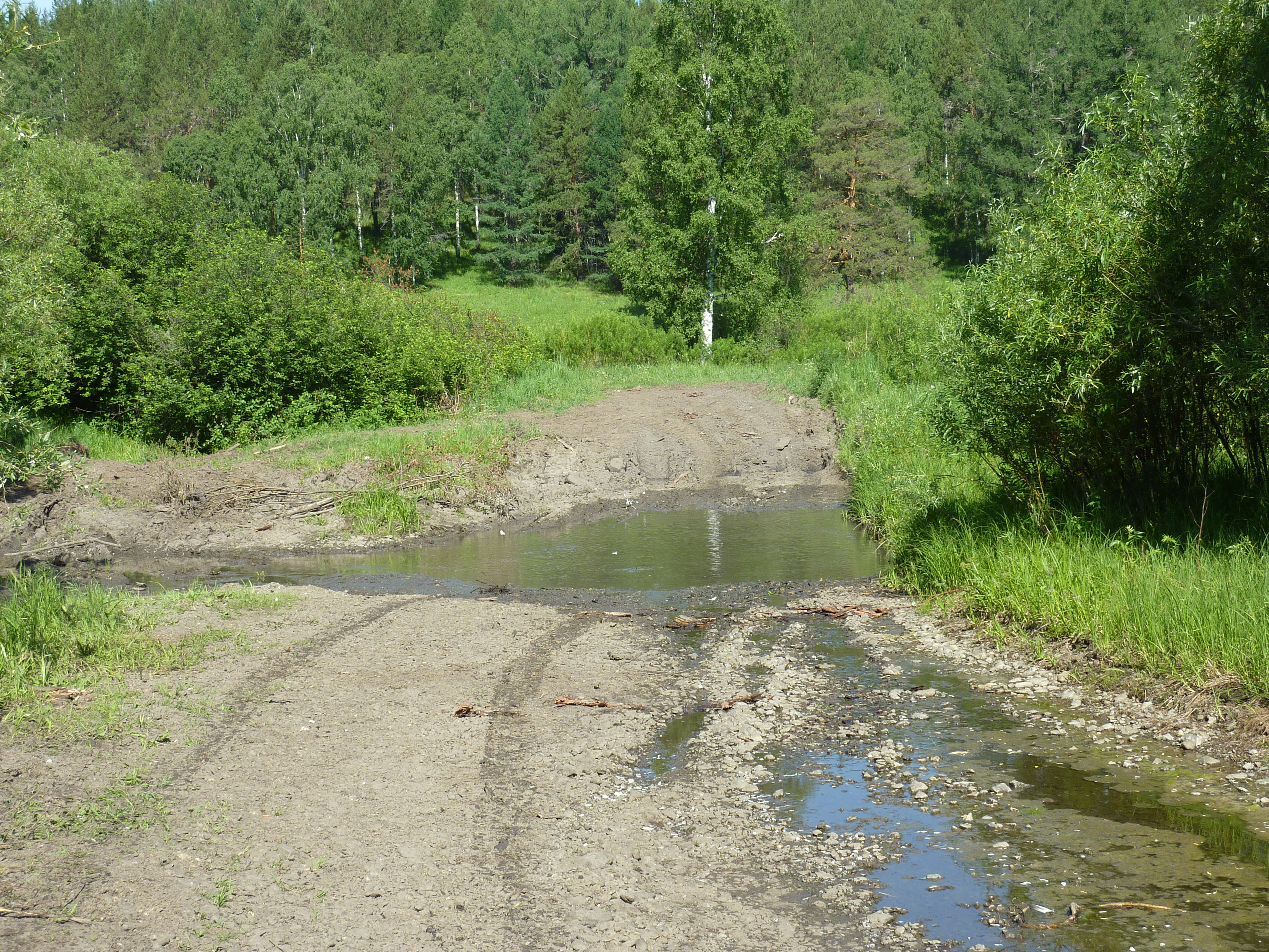 Ford across the Bol'shoy Kizil river, Abzelil District (rayon) of Bashkortostan.